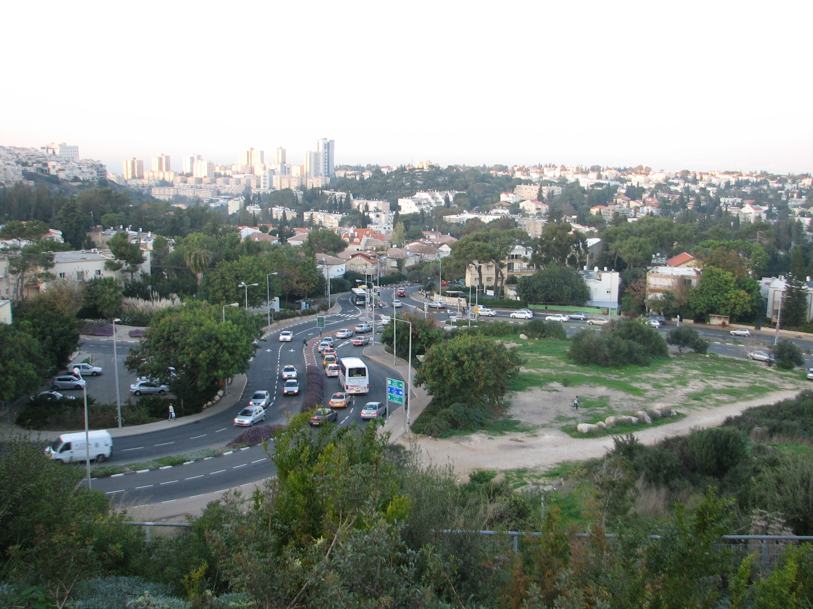 Lovely neighbourhood of southern Navé Shaanan.